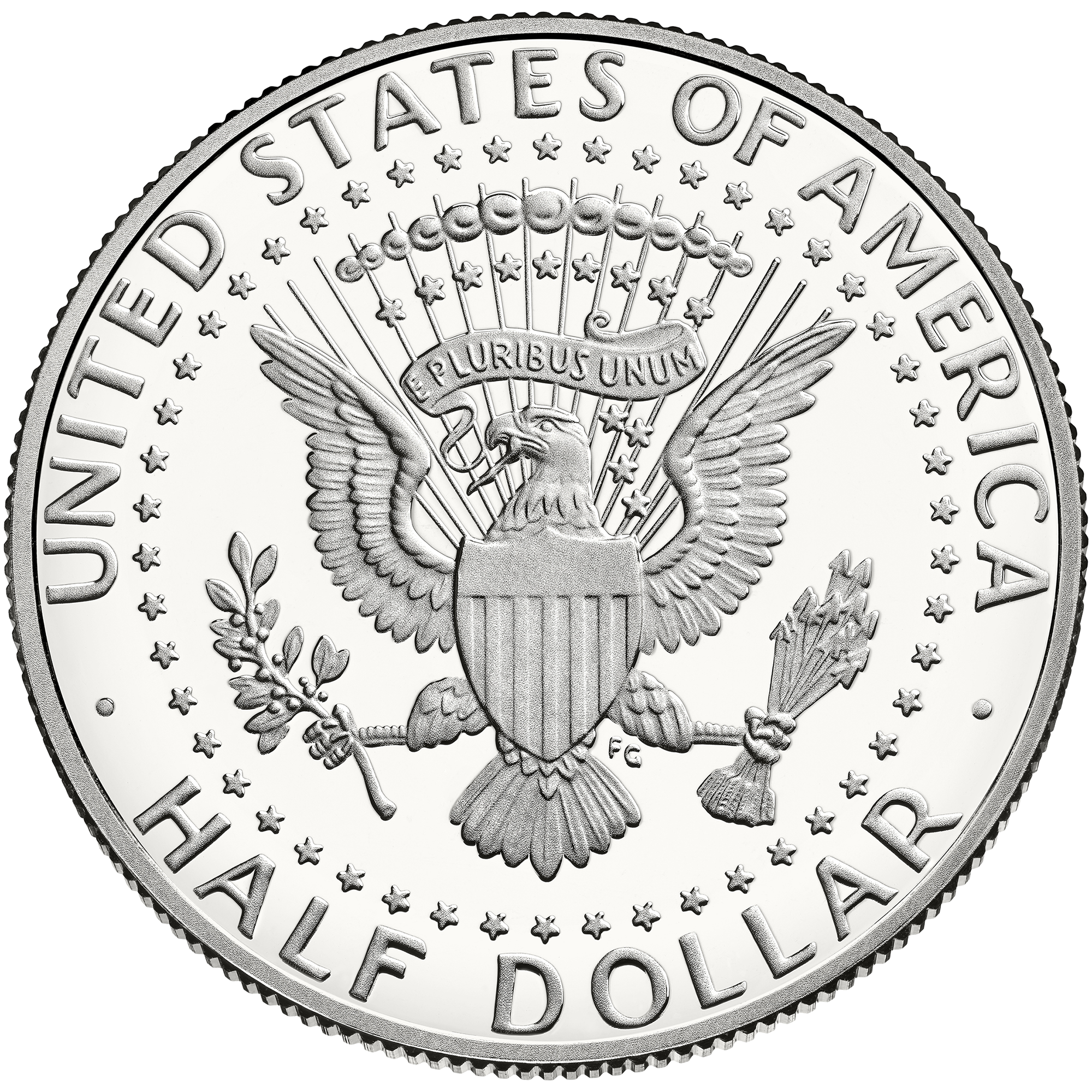 United States Half Dollar reverse